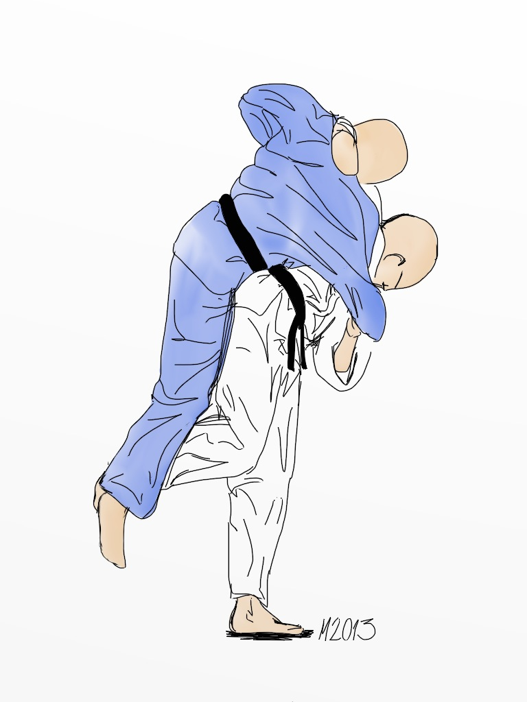 Illustration of the judo throw hane-goshi, or spring-hip-throw.